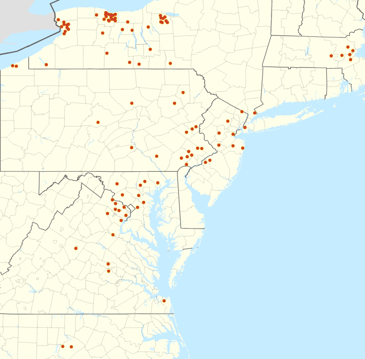 Footprint of Wegmans stores within the United States.